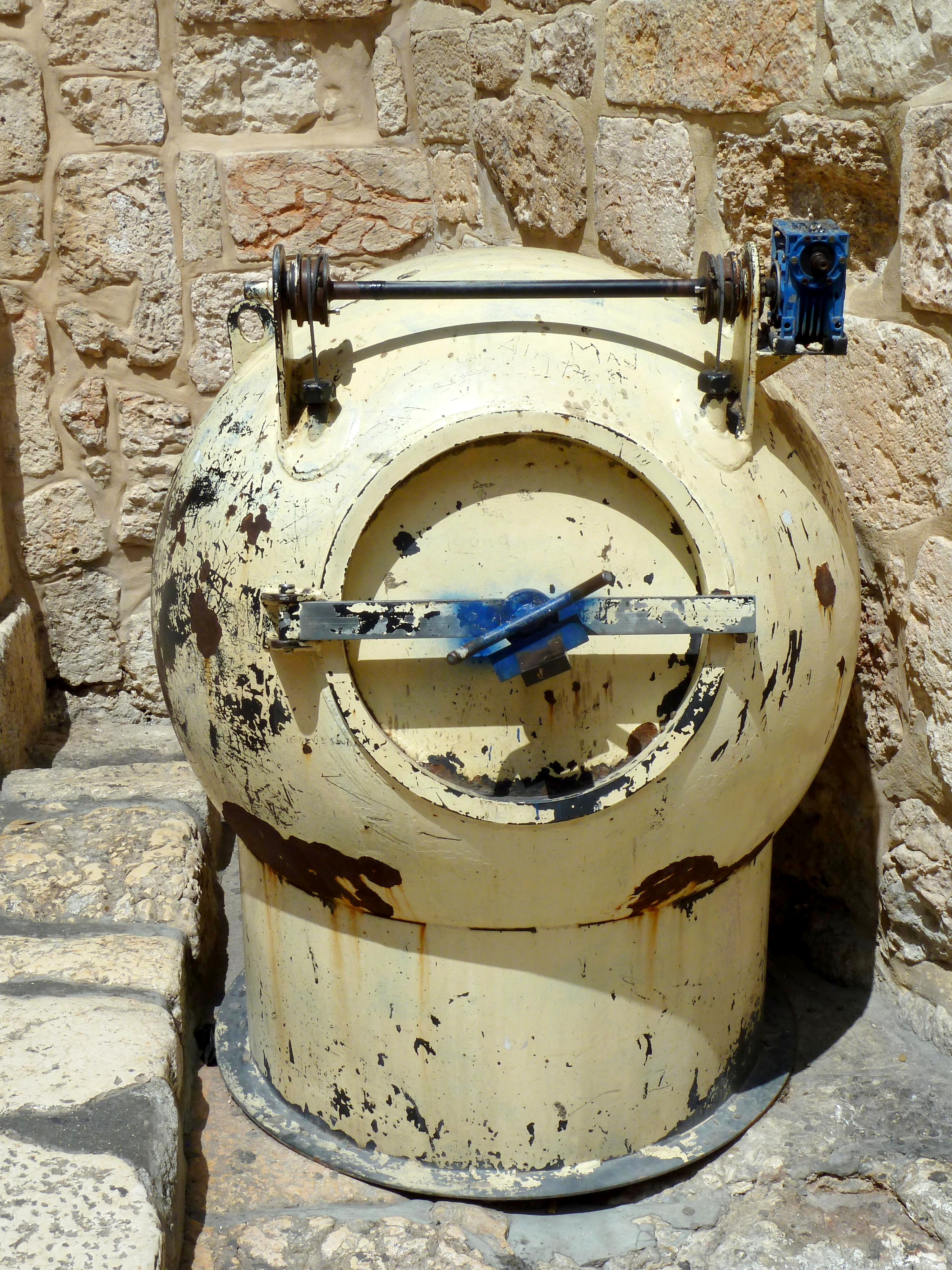 Old Jerusalem, Holy Sepulchre parvis, demining device : anti-terrorist device to neutralize the bombs. When the police finds a suspicious package that may explode, she places it inside.